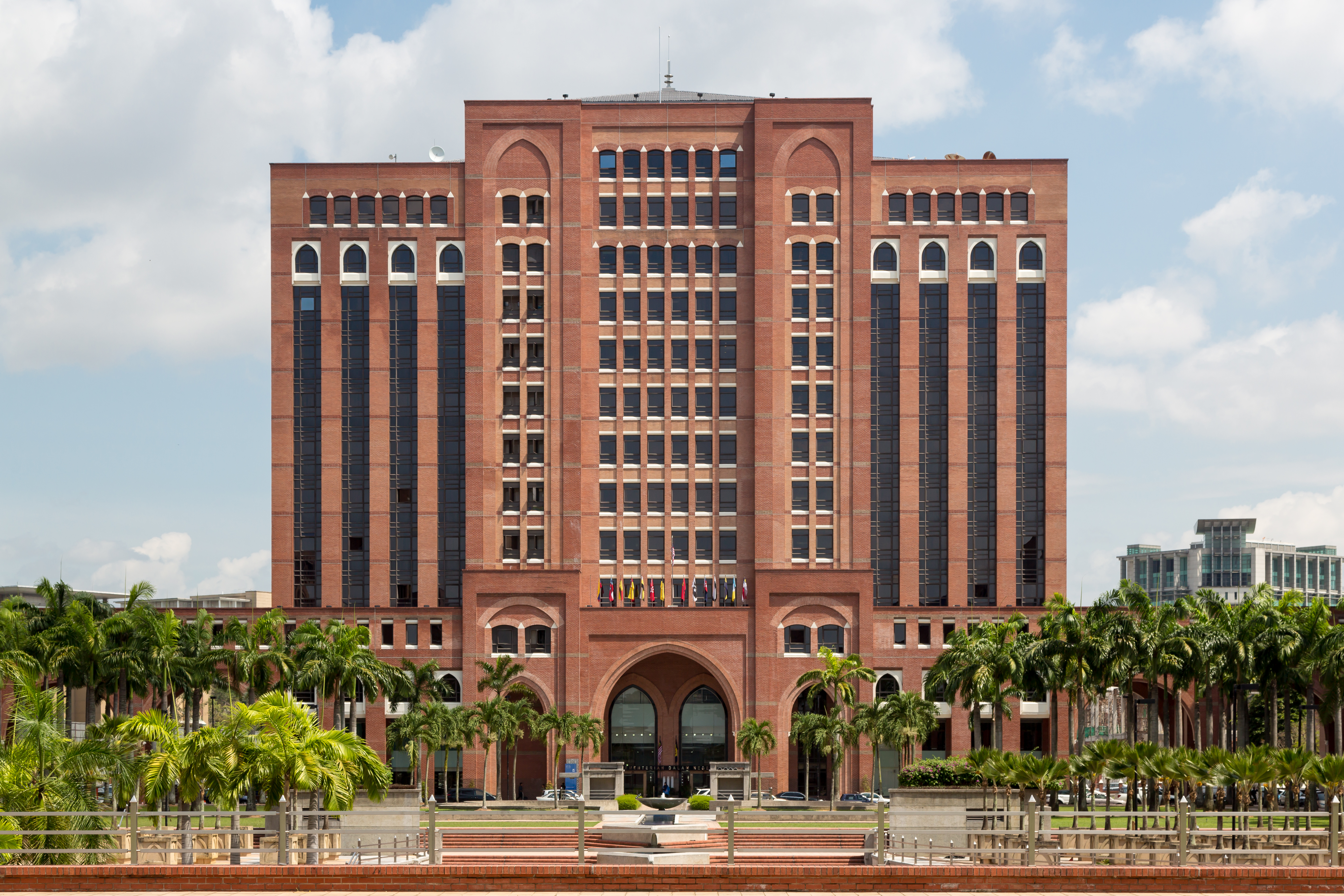 Putrajaya, Malaysia: Kementerian Dalam Negeri (Ministry of Home Affairs); main building in Block D1